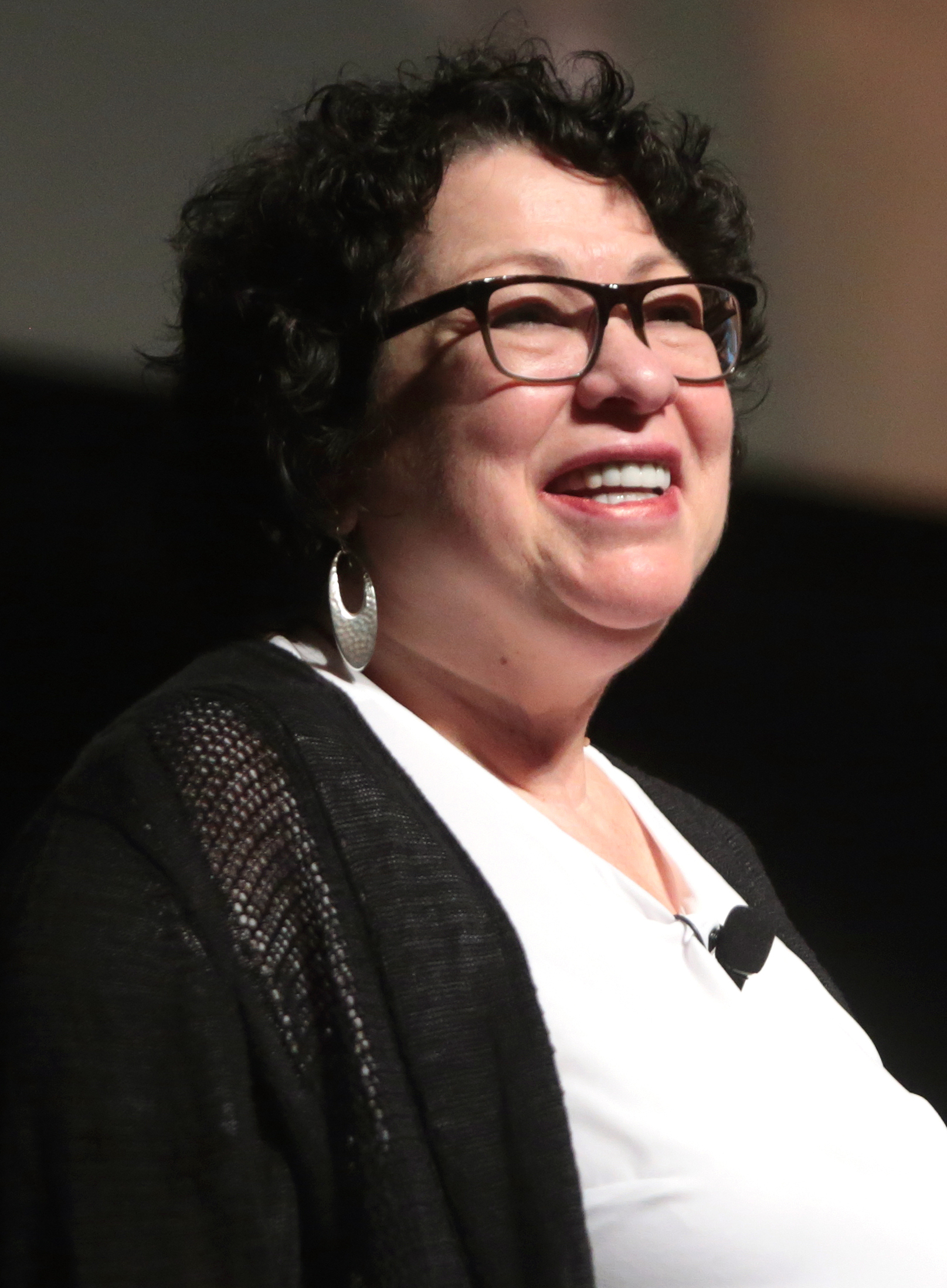 U.S. Supreme Court Justice Sonia Sotomayor speaking in Tempe, Arizona.